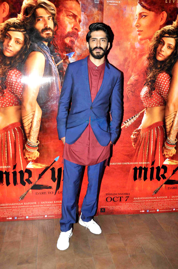 Harshvardhan Kapoor at the screening of ‘Mirzya’.